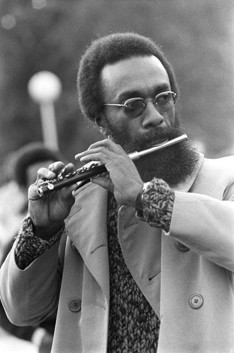 Lloyd McNeill Central Park, New York City October 1970 (Photograph by Nick DeWolf) [1]